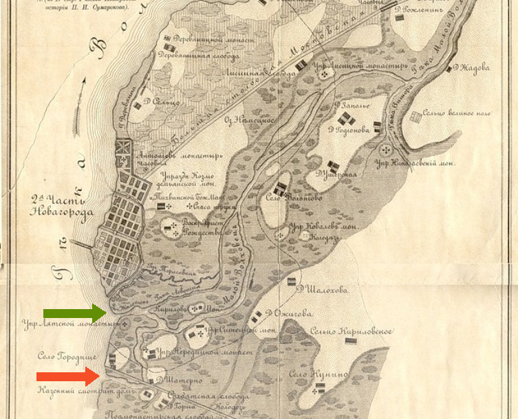 Old map (beginning of XIX) of the lands around Novgorod, Russia